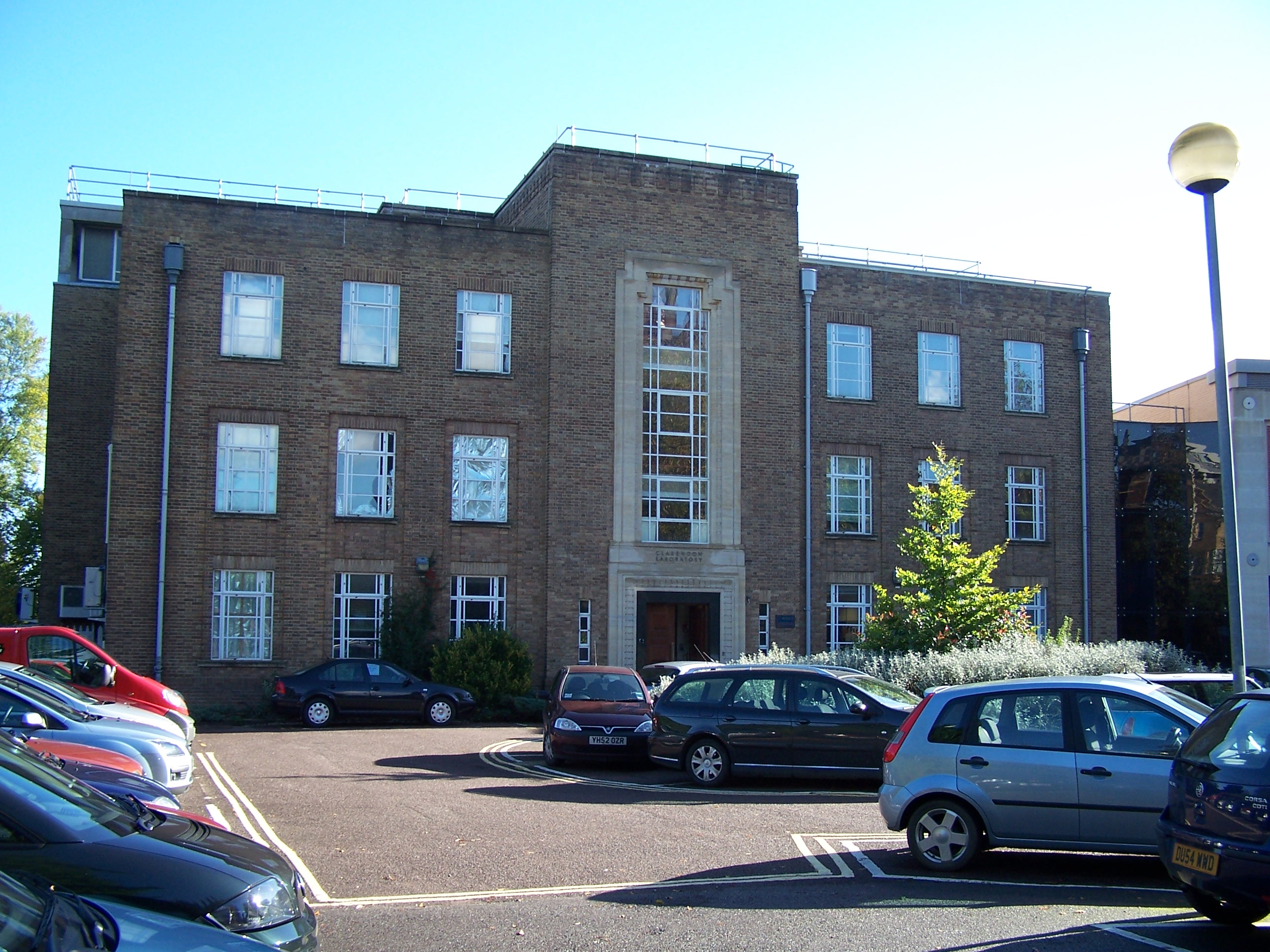 The Clarendon Laboratory, University of Oxford